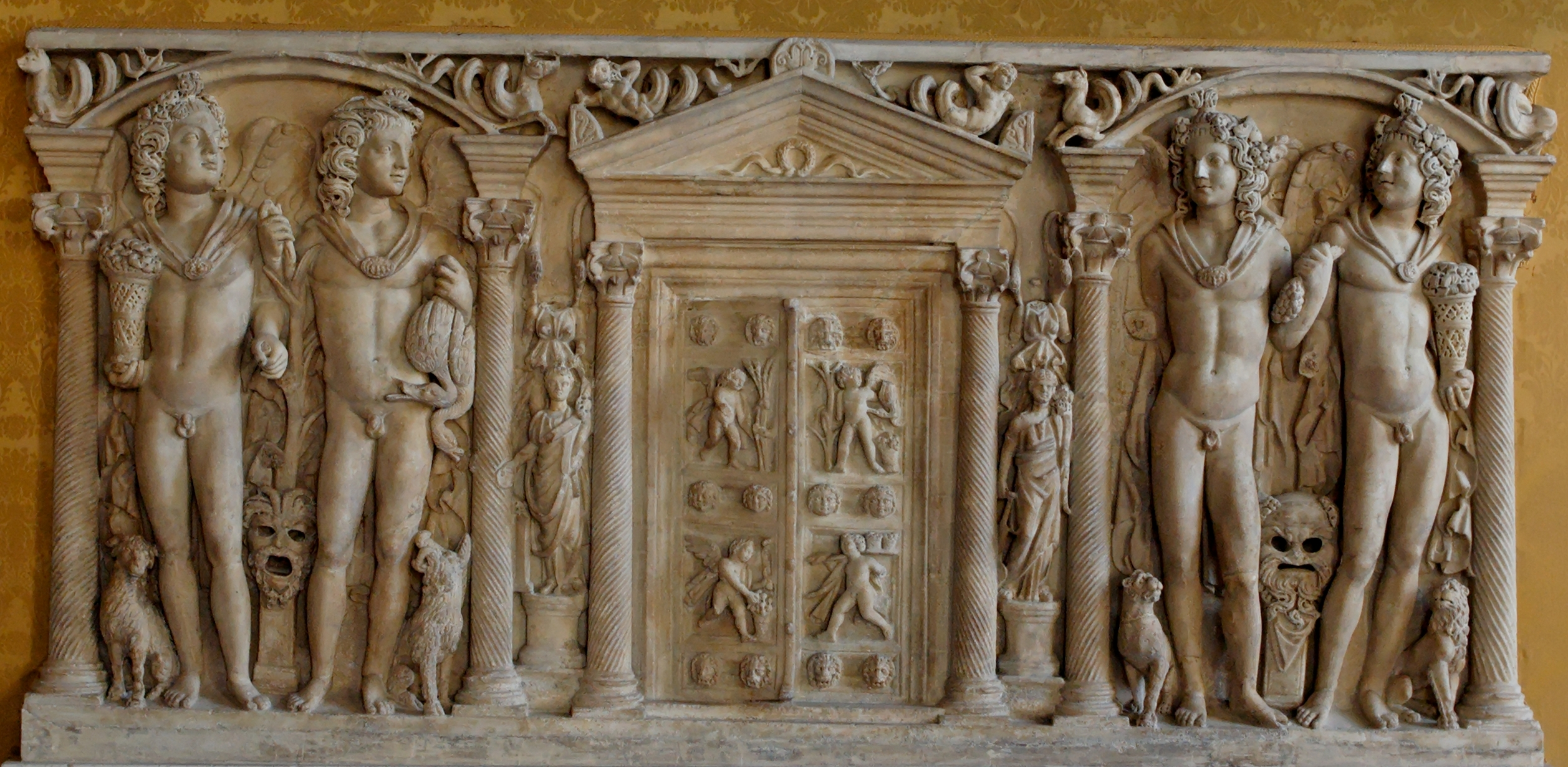 Front panel of a sarcophagus representing the four seasons, Roman Imperial artwork.